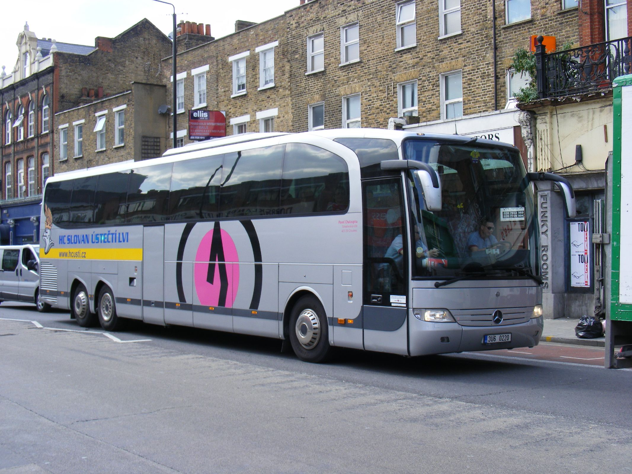 Mercedes-Benz Travego L coach (reg. 3U6 0220) in London, United Kingdom. HC Slovan LVI is a Czech Ice Hockey Team, until 2007 known as HC Slovan Ústí nad Labem. Operator Pavel Chaloupka, Stradovská 400, 403 39 Chlumec, Czech Republic. Fleet details here